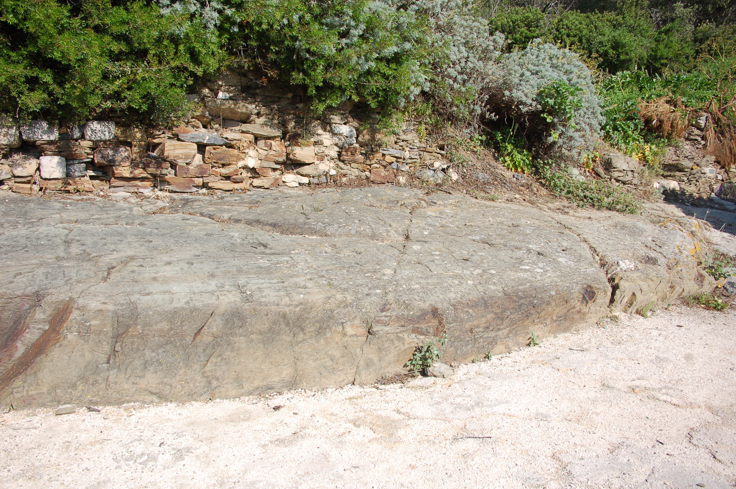 The stone wells (holes), on the hillside of Casteou, Hyères